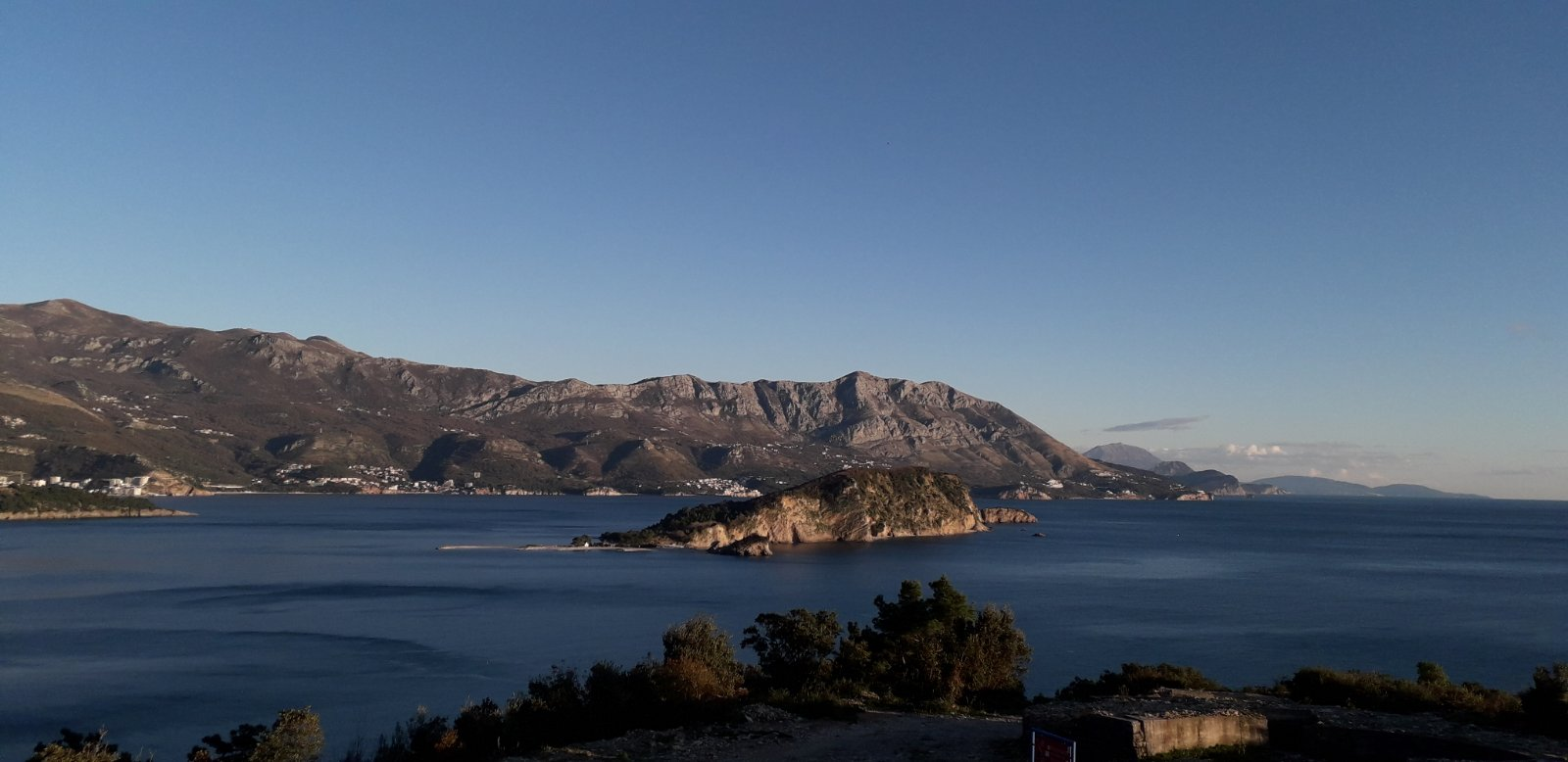 Sveti Nikola island.